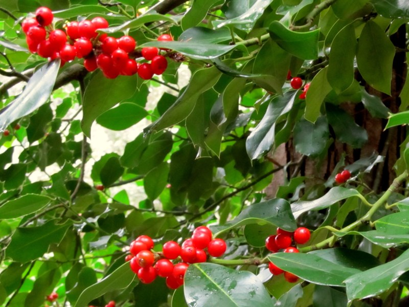 elba island